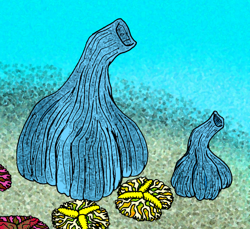 My reconstruction of the Ediacaran cnidarian Inaria karli, and the trilobozoan Albumares.